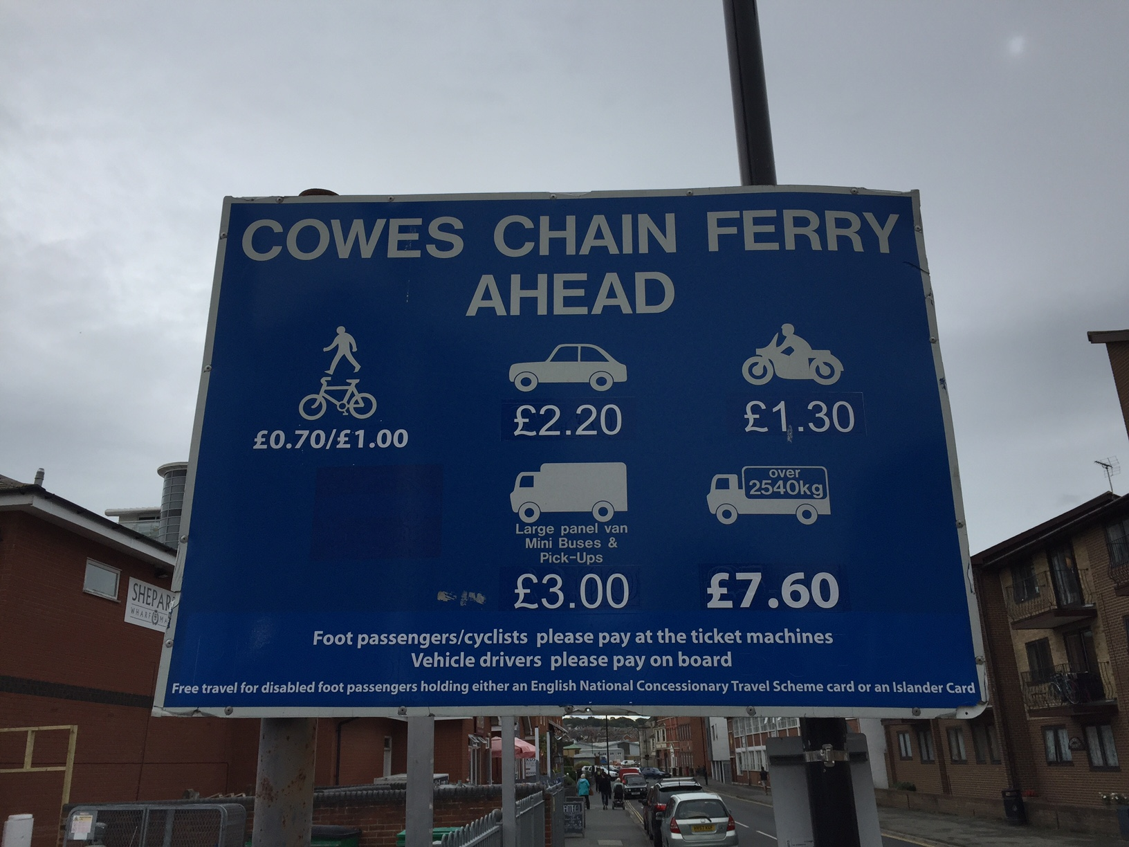 Road sign describing the various fees required to use the Cowes Chain Ferry between Cowes and East Cowes as of 25 September 2016